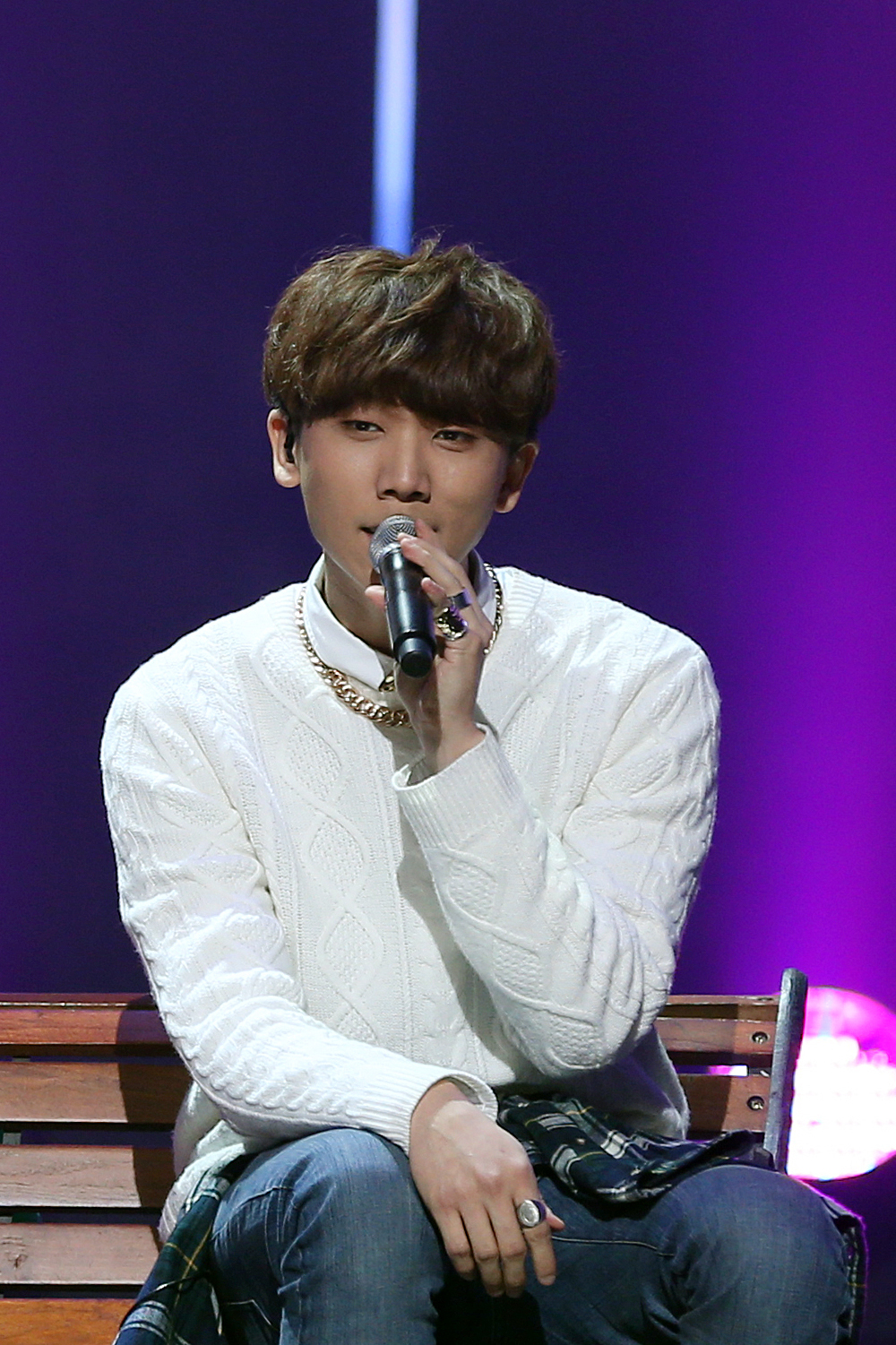 Mcountdown Junggigo x Soyou(Sistar) ‘Some’ CJ E&M Center, Sangam-dong, Mapo-gu, Seoul 2014.03.06. Ministry of Culture, Sports and Tourism Korean Culture and Information Service ( Jeon Han 엠카운트다운 생방송 정기고 x 소유(시스타) ‘썸’ 2014-03-06 CJ E&M 센터 문화체육관광부 해외문화홍보원 코리아넷 전한